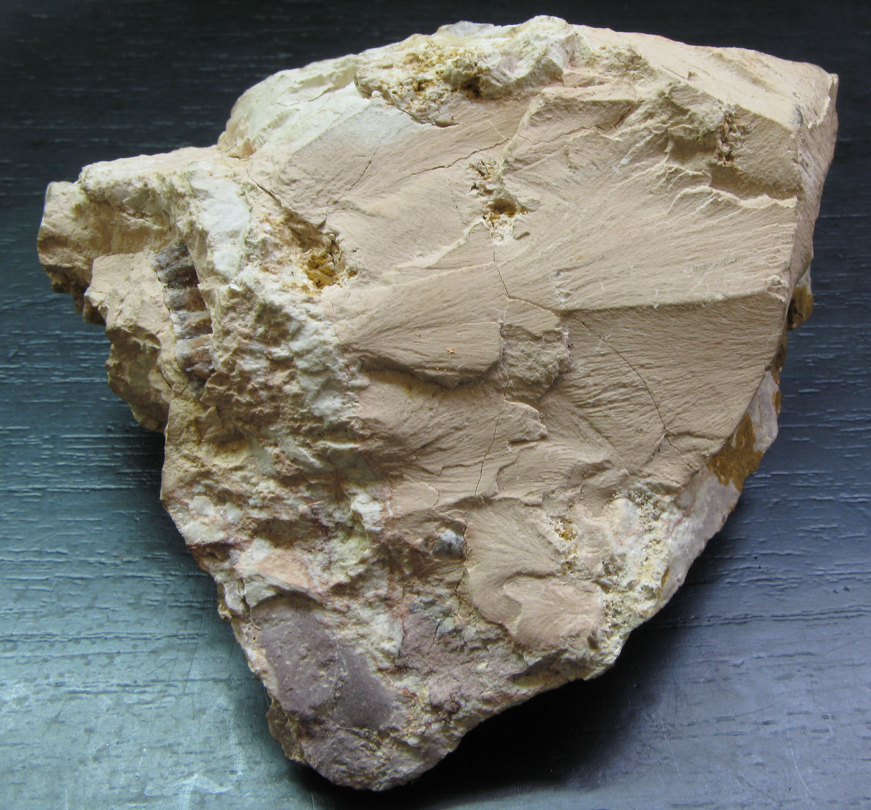 Nacrite Locality: „Frohe Hoffnung“-shaft, Wildental, ore mountains Exposed in the Mineralogical Museum of University Bonn, Germany